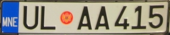 License plate from Montenegro since 2008, UL = Ulcinj